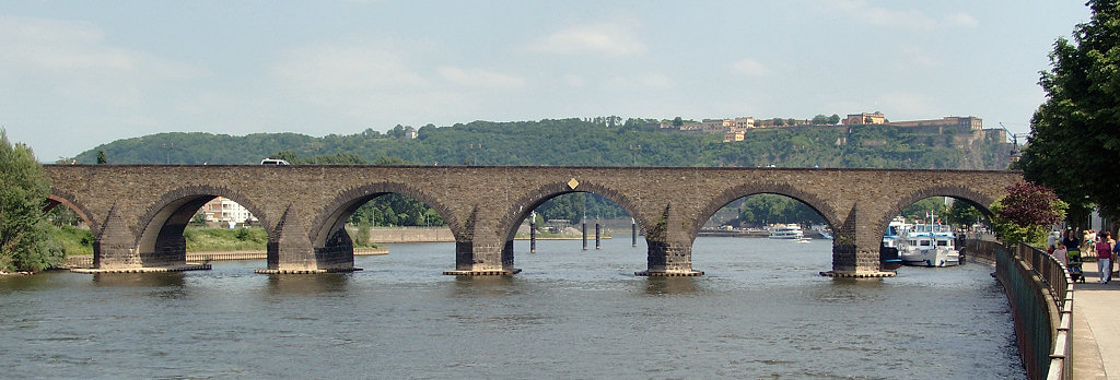 The Balduinbrücke in Koblenz